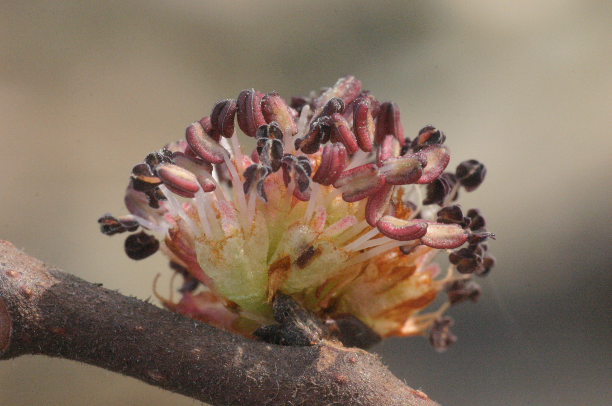 Wych Elm Ulmus glabra, flowers, Böhlerwerk bei Waidhofen an der Ybbs, Niederösterreich, Austria